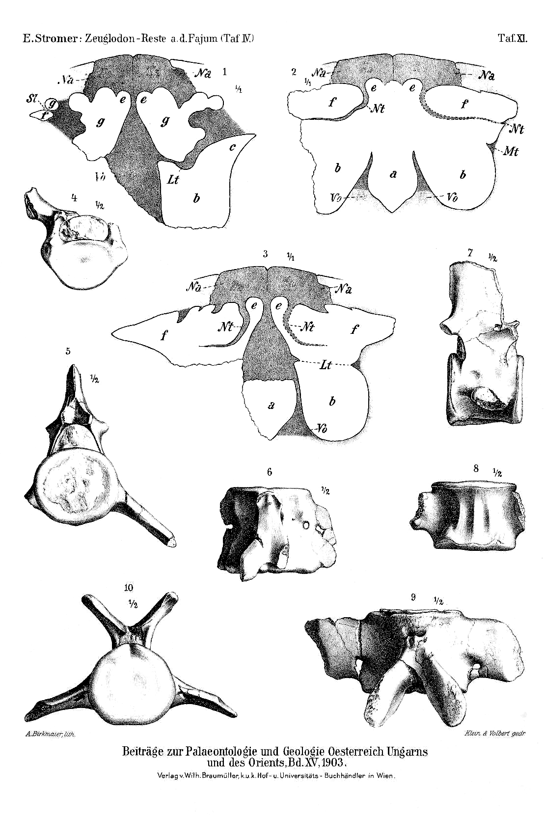 Vertebrae from the basilosaurid whale Stromerius as illustrated by Stromer in 1903. The original plate was mirrored, this have been corrected in this image.